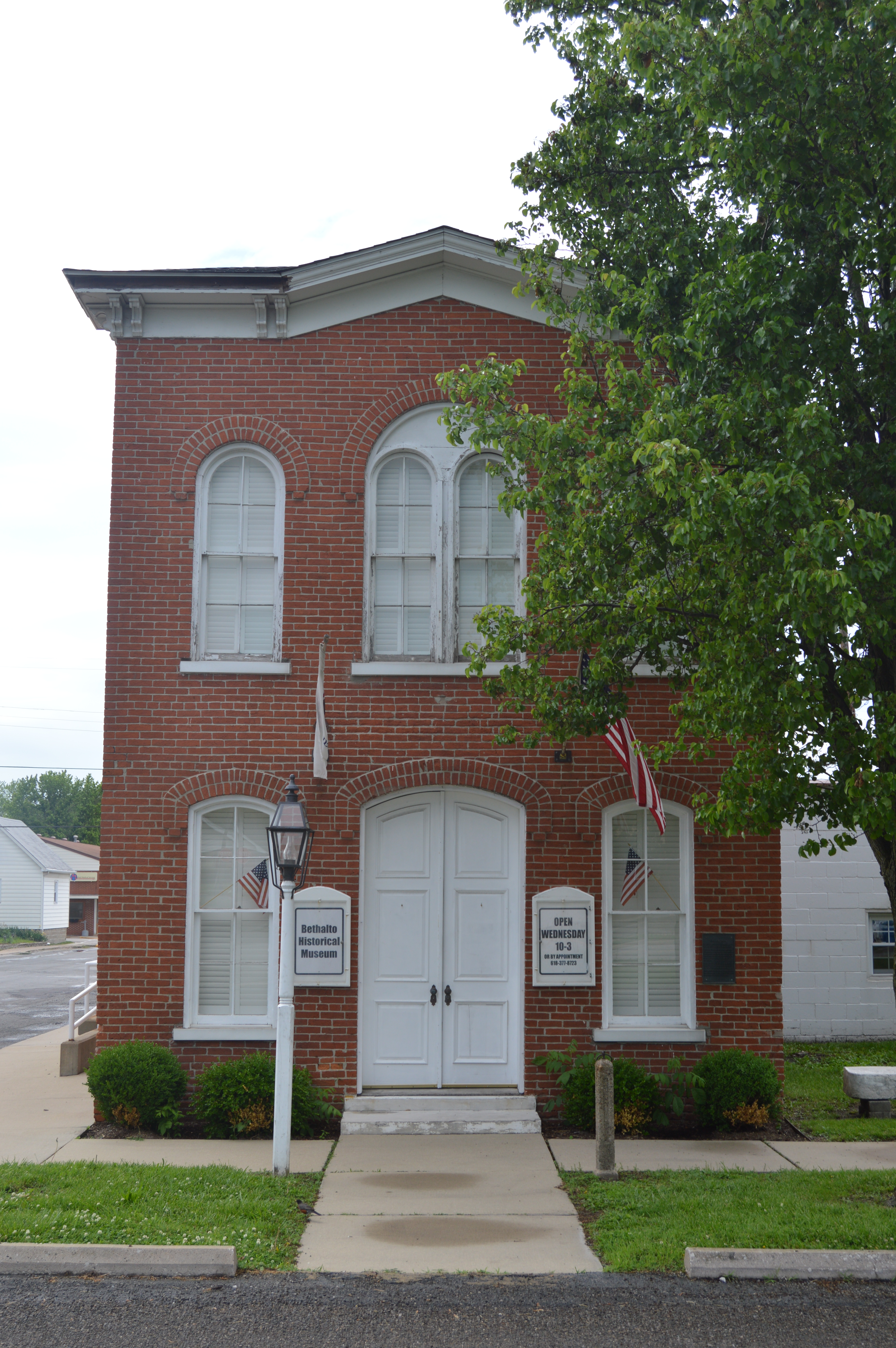 Front and eastern side of the Bethalto Village Hall, located at 124 W. Main Street in Bethalto, Illinois, United States. Built in 1873, it is listed on the National Register of Historic Places.